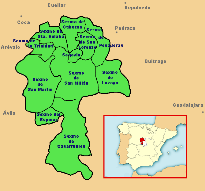 Medieval region map of Comunity of Town and Land of Segovia.